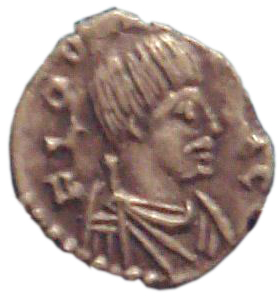 Odovacar_Ravenna_477.